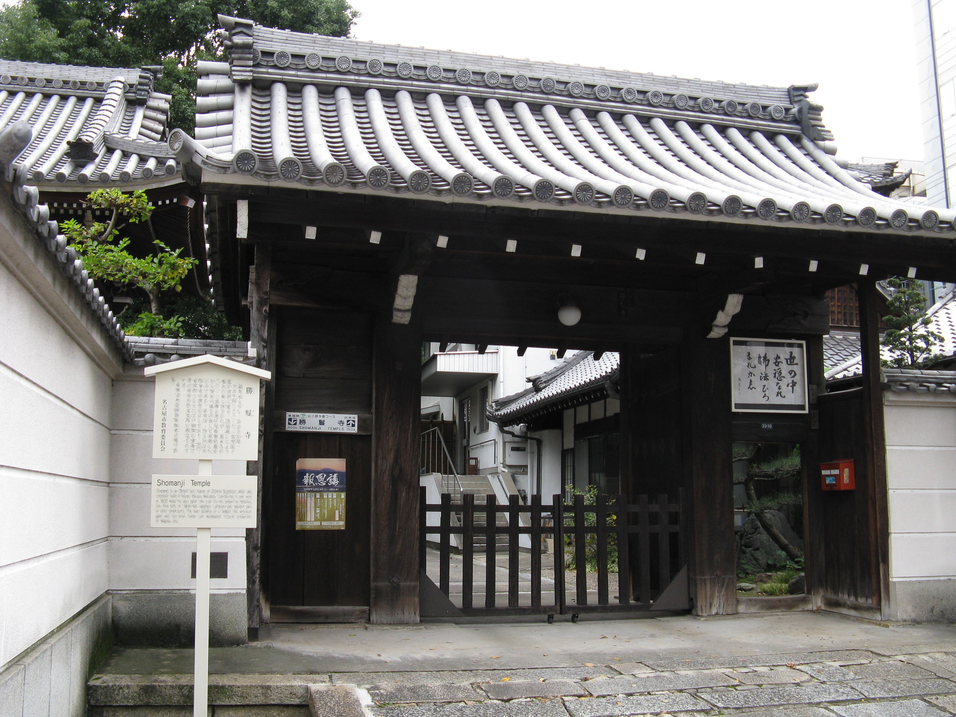 Shōman-ji in the city of Nagoya, central Japan.